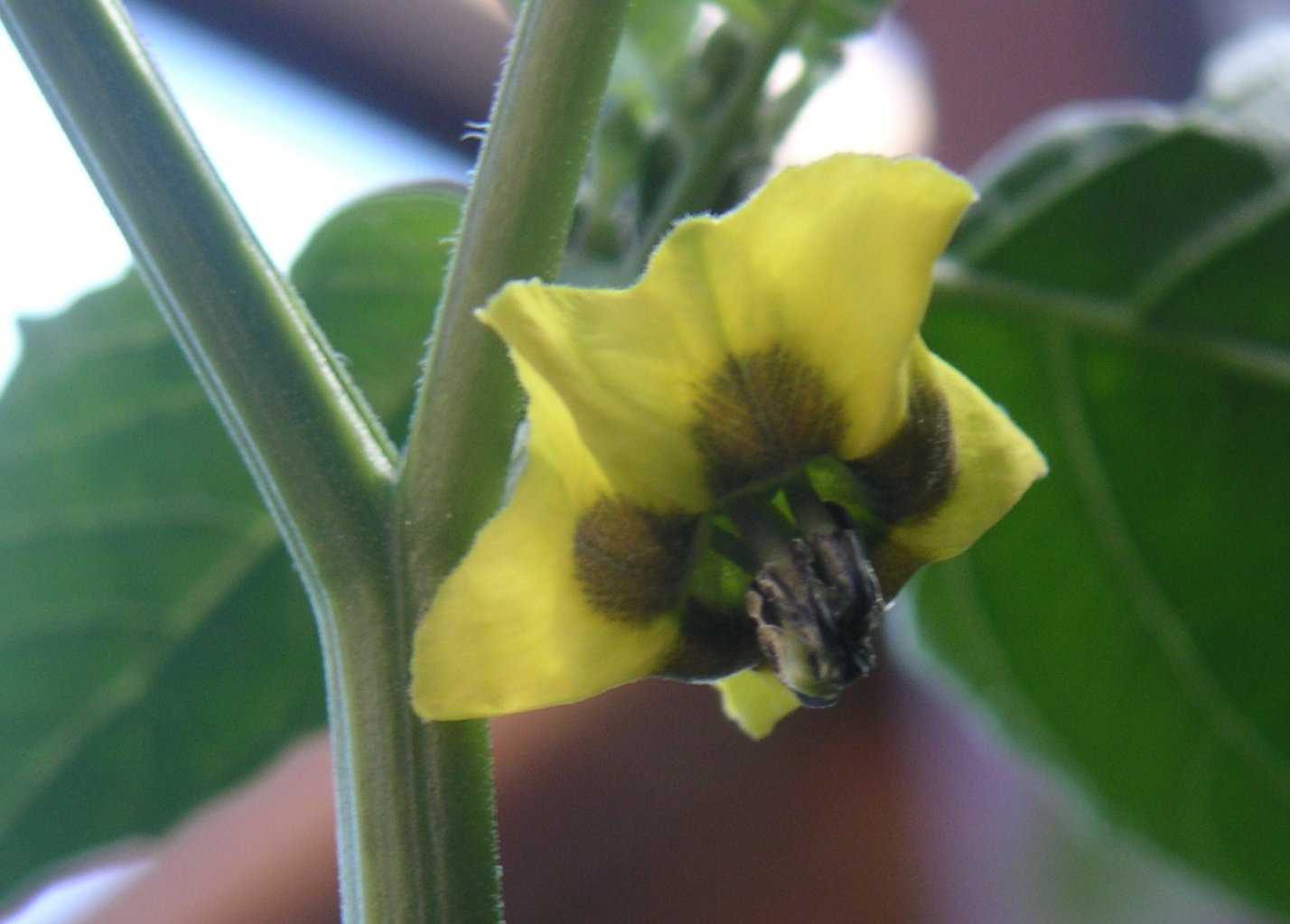 Flower of Tomatillo (Physalis ixocarpa)